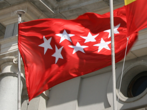 Bandera de la comunidad autónoma de Madrid (roja, con siete estrellas blancas), bandera de España (roja y amarilla) y bandera de la ciudad de Madrid (morada, a la derecha), en el Teatro Real de Madrid (España). Flags of Madrid and Spain. Flag of the autonomous community of Madrid (red, with seven white stars), Spain's flag (red and yellow) and flag of the city of Madrid (purple, right), at the Teatro Real de Madrid (Spain).